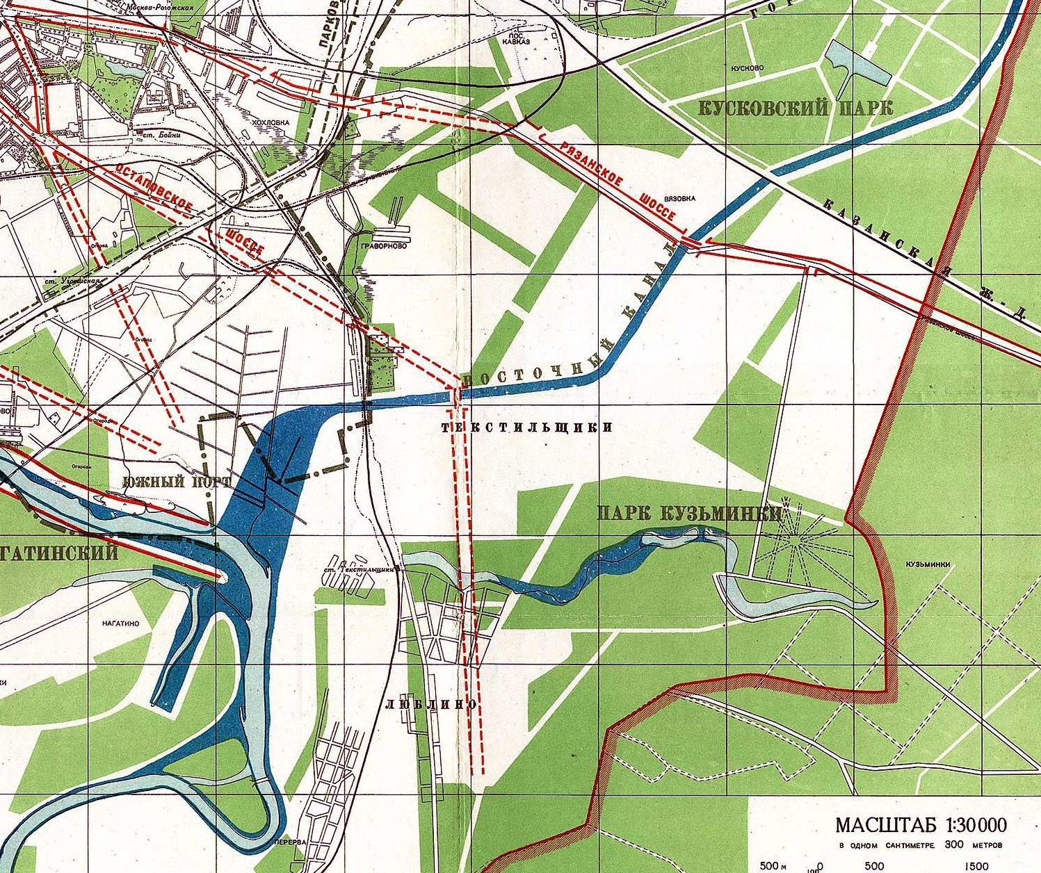 Planned Vostochnyj waterway (part next to the Moscow river)